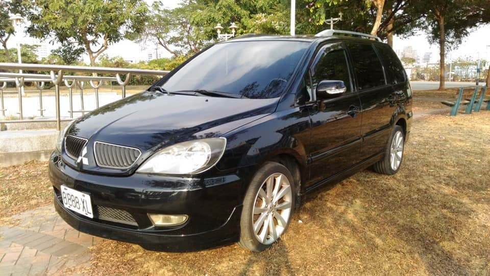 Second generation Mitsubishi Savrin Inspire front